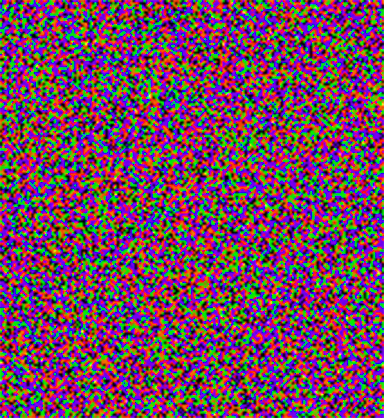 Color filters made from fine grains of orange, green, and violet-bllue starch covering an Autochrome glass plate. Simulated with Photoshop.